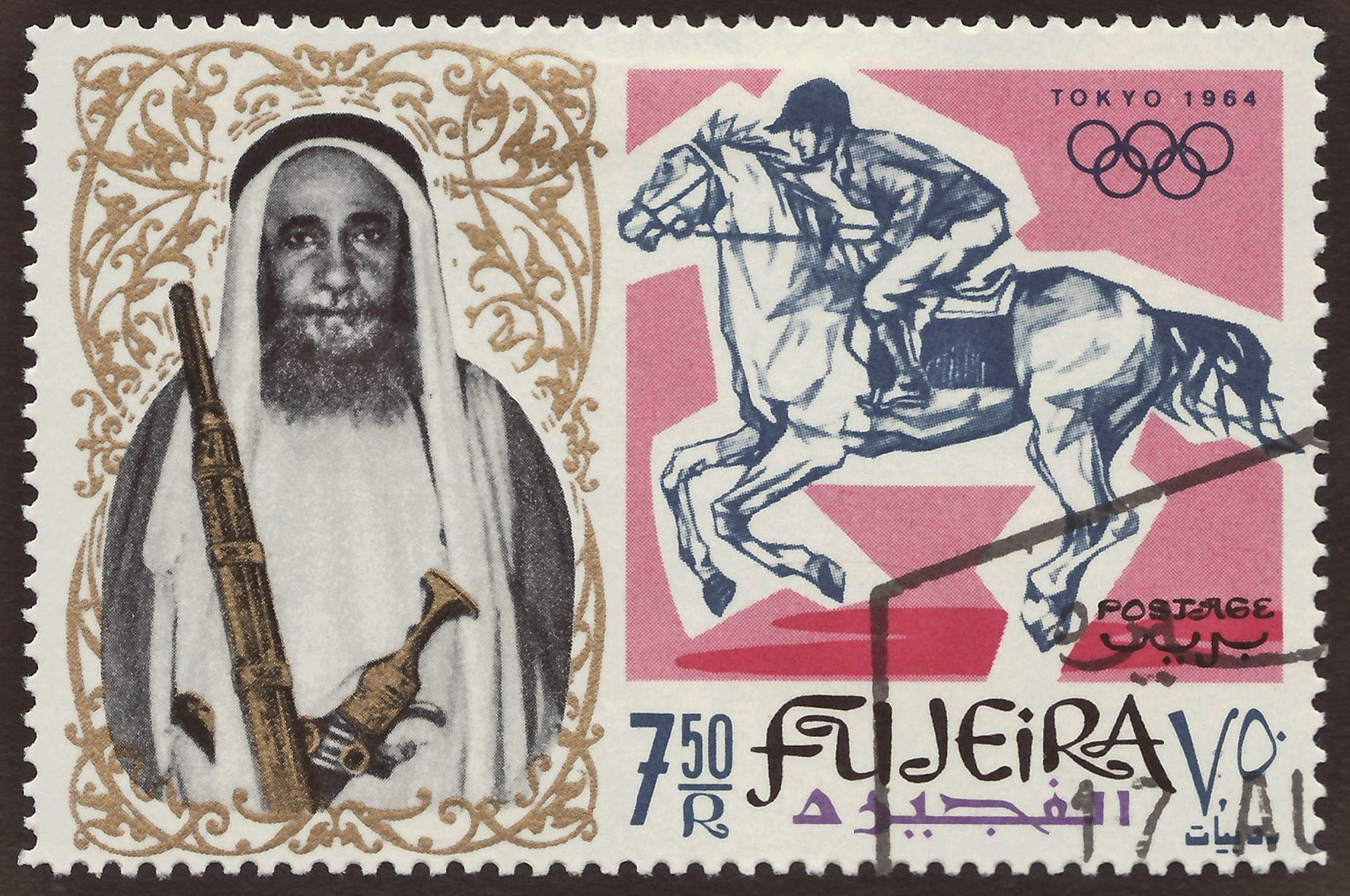 Stamp of the Emirate Fujairah (Fujeira); 1964; commemorative stamp of the issue "1964 Summer Olympics in Tokyo"; stamp drawing of the then Emir of Fujeira, Sheikh Muhammad al-Sharqui (left with gun before golden ornaments), and a galopp-sportsmen at race (right); stamp postmarked (CTO = "cancelled-to-order") Note: The Emirate Fujairah did not take part in the 1964 Olympic Summer Games. Stamp: Michel: No. 27A; Yvert et Tellier: No. 27; Scott: No. 27 Color: multicolored (grey / violet / blue / golden colors dominating) Watermark: none Nominal value: 7.50 R (Rupies) Postage validity: from 6 December 1964 until 31 March 1973 date QS:P,+1950-00-00T00:00:00Z/7,P580,+1964-12-06T00:00:00Z/11,P582,+1973-03-31T00:00:00Z/11 Stamp picture size (printed area): 53.0 x 35.5 mm